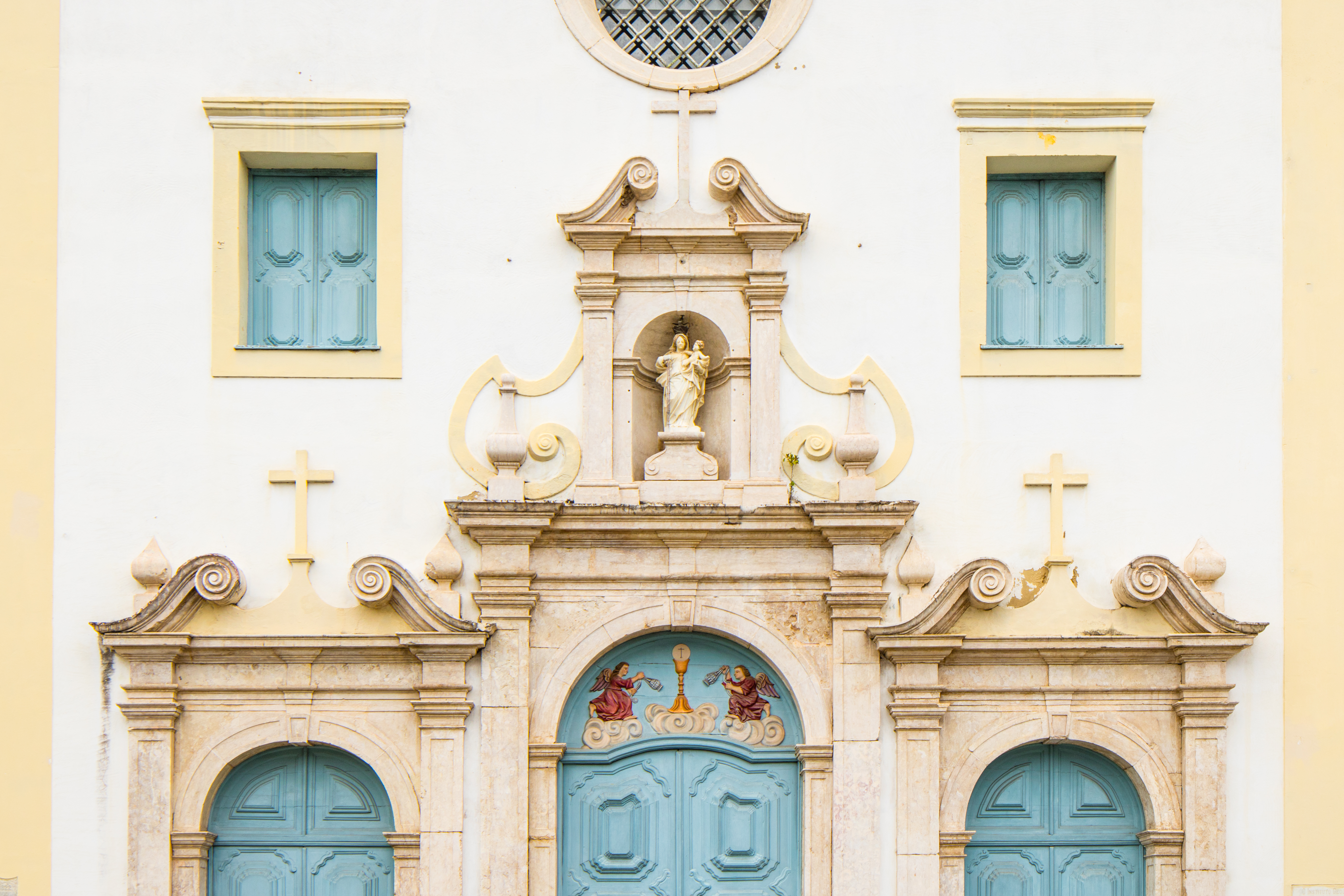 Façade of Igreja Matriz de Nossa Senhora do Rosário, Cachoeira, Bahia, Brazil.